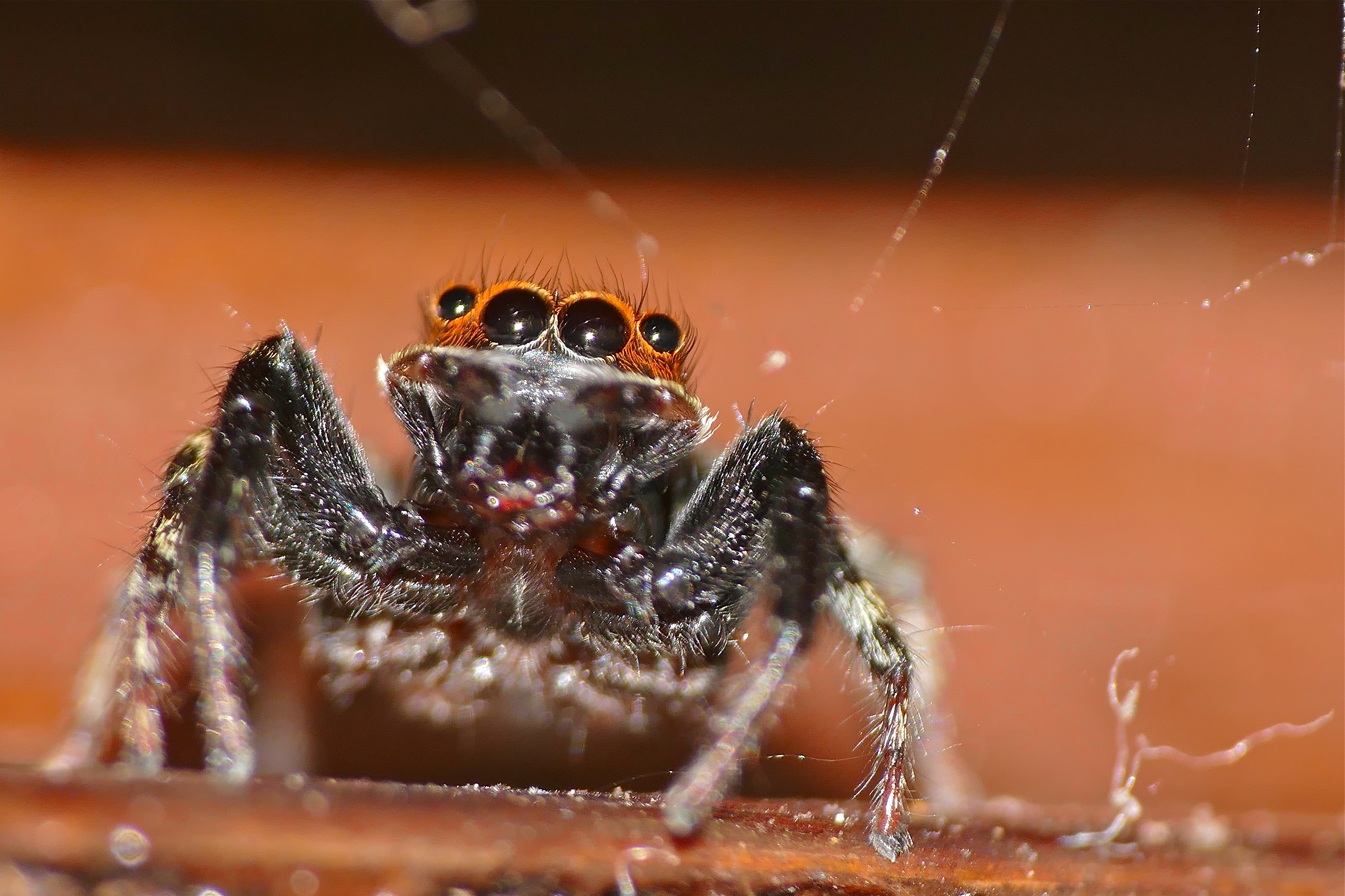 Damai Beach Resort, Santubong Peninsula, North of Kuching, Sarawak, MALAYSIA